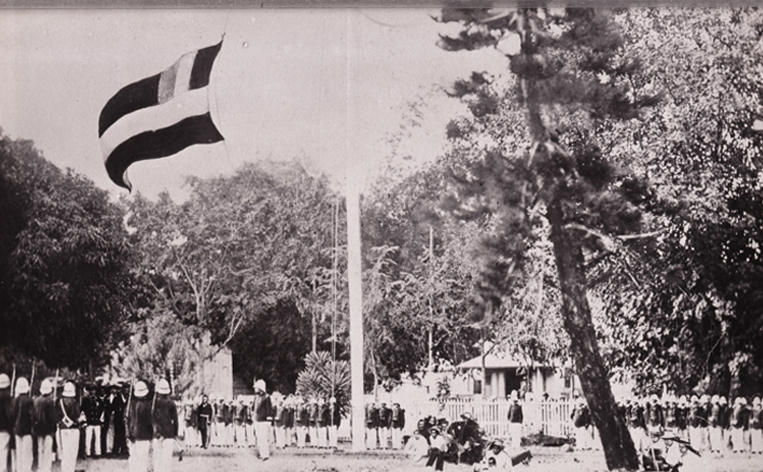 Scene of the handover of the flag of the protectorate to Governor Lacascade by Prince Hinoi on June 18, 1881. This image has often been presented, wrongly, as that of the proclamation of the protectorate. Photograph by G. Spitz.